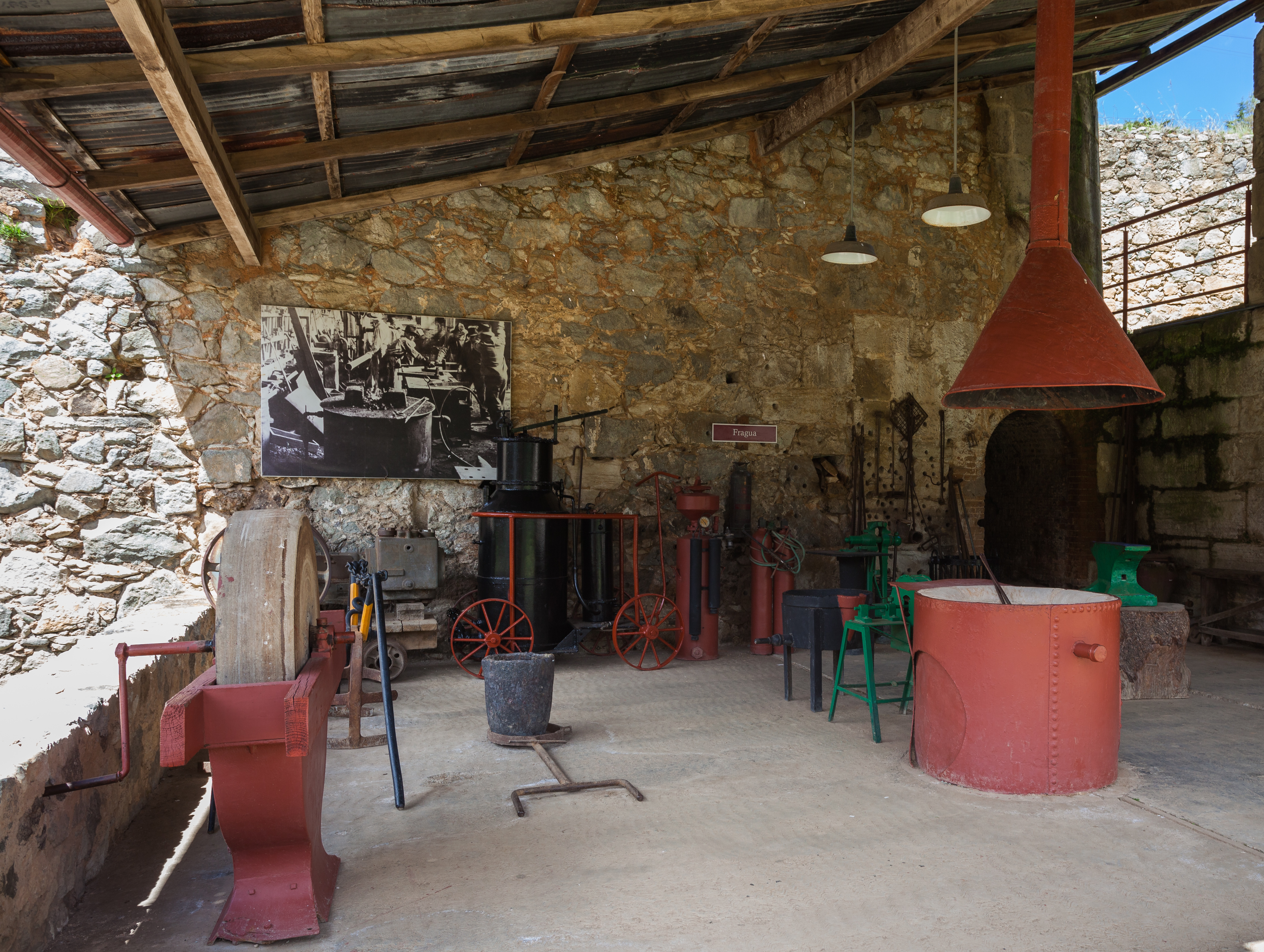 Acosta Mine, Real del Monte, Hidalgo, Mexico